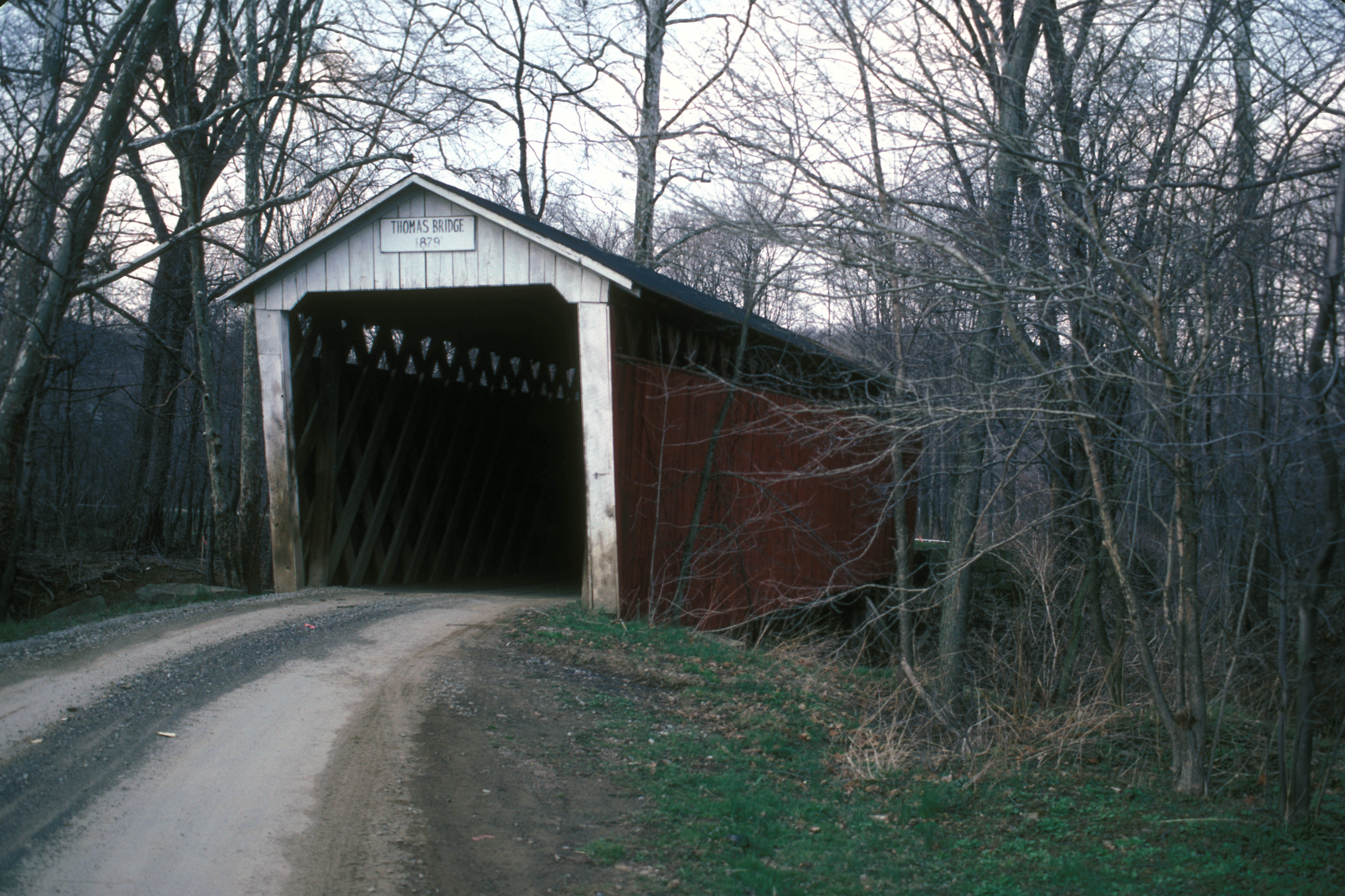 THOMAS COVERED BRIDGE OVER CROOKED CREEK; 1879; 88’ TOWN